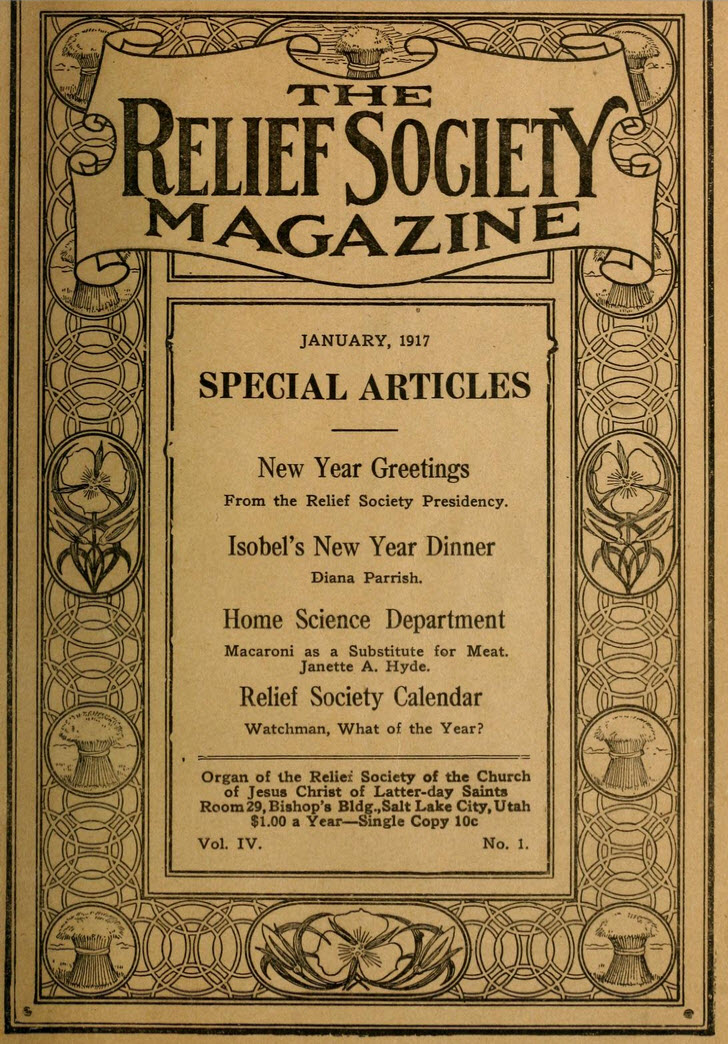 First page of the January 1917 issue of Relief Society Magazine, organ of the Relief Society of the Church of Jesus Christ of Latter-Day Saints, Salt Lake City, Utah.